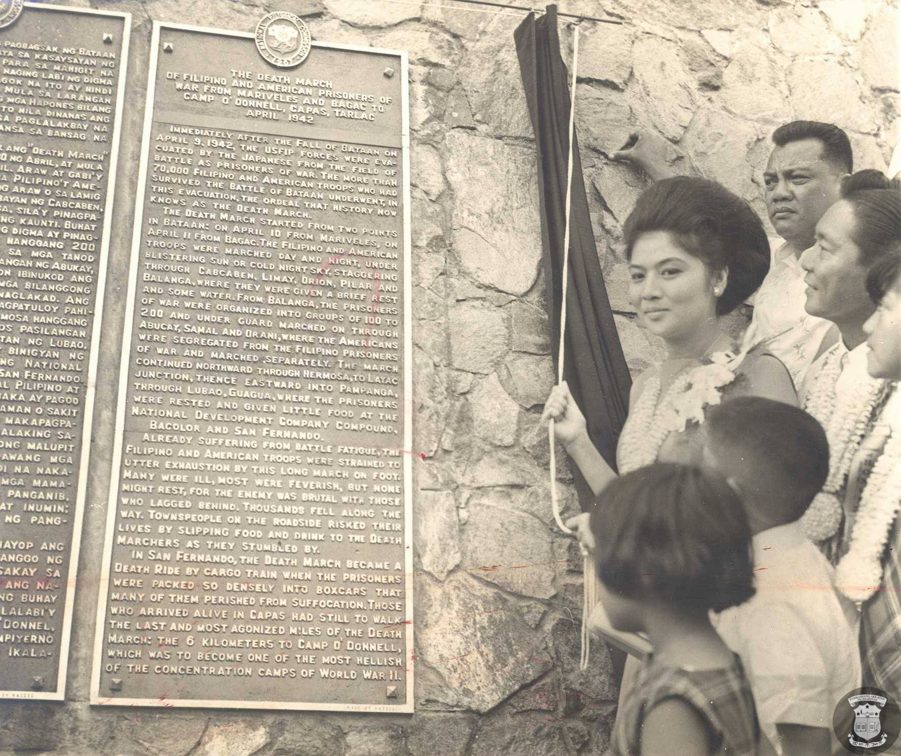 Imelda Marcos at the Bataan Death March Memorial Plaque. Photo circa 1965